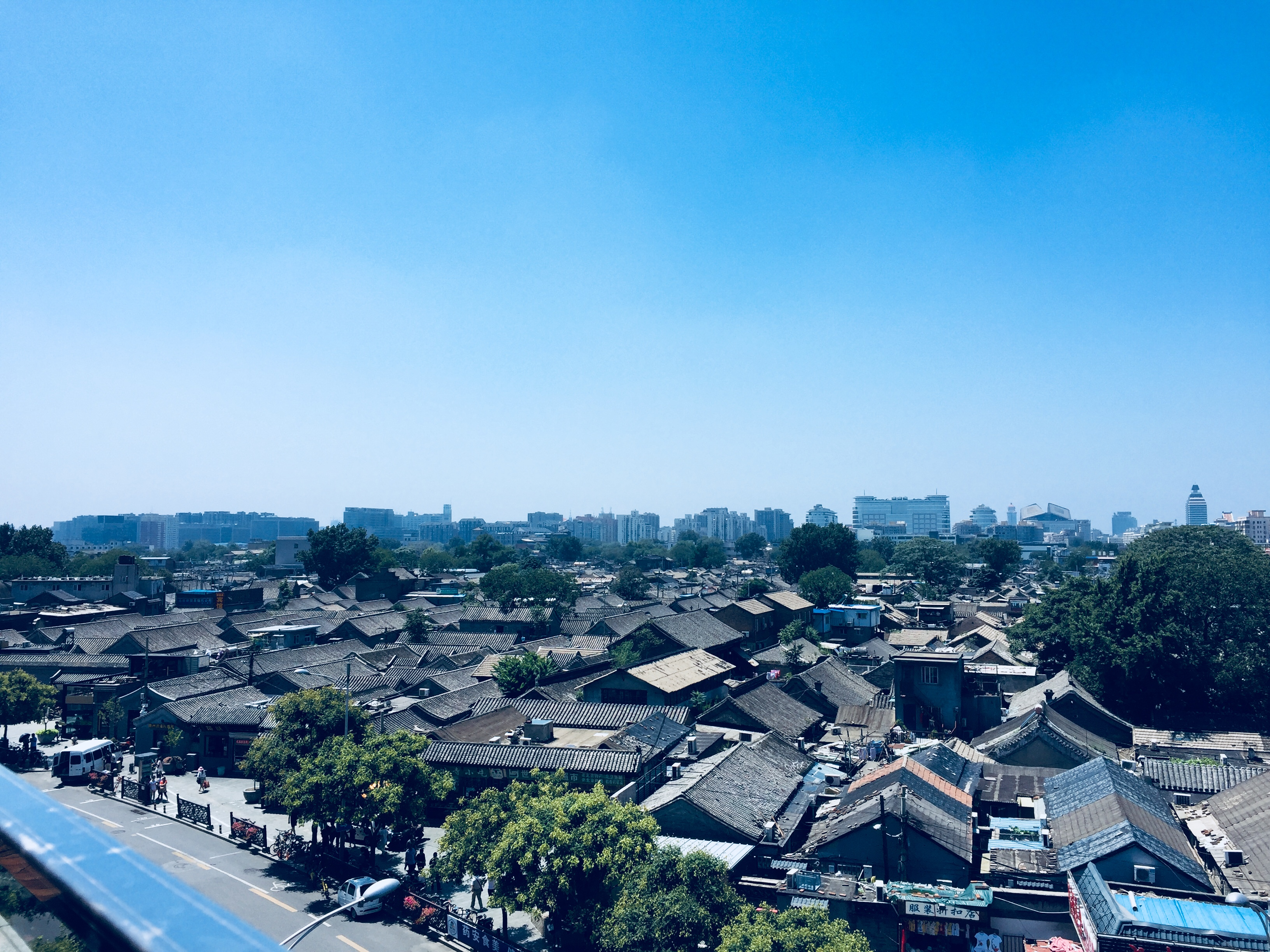 Hutongs outside Qianmen